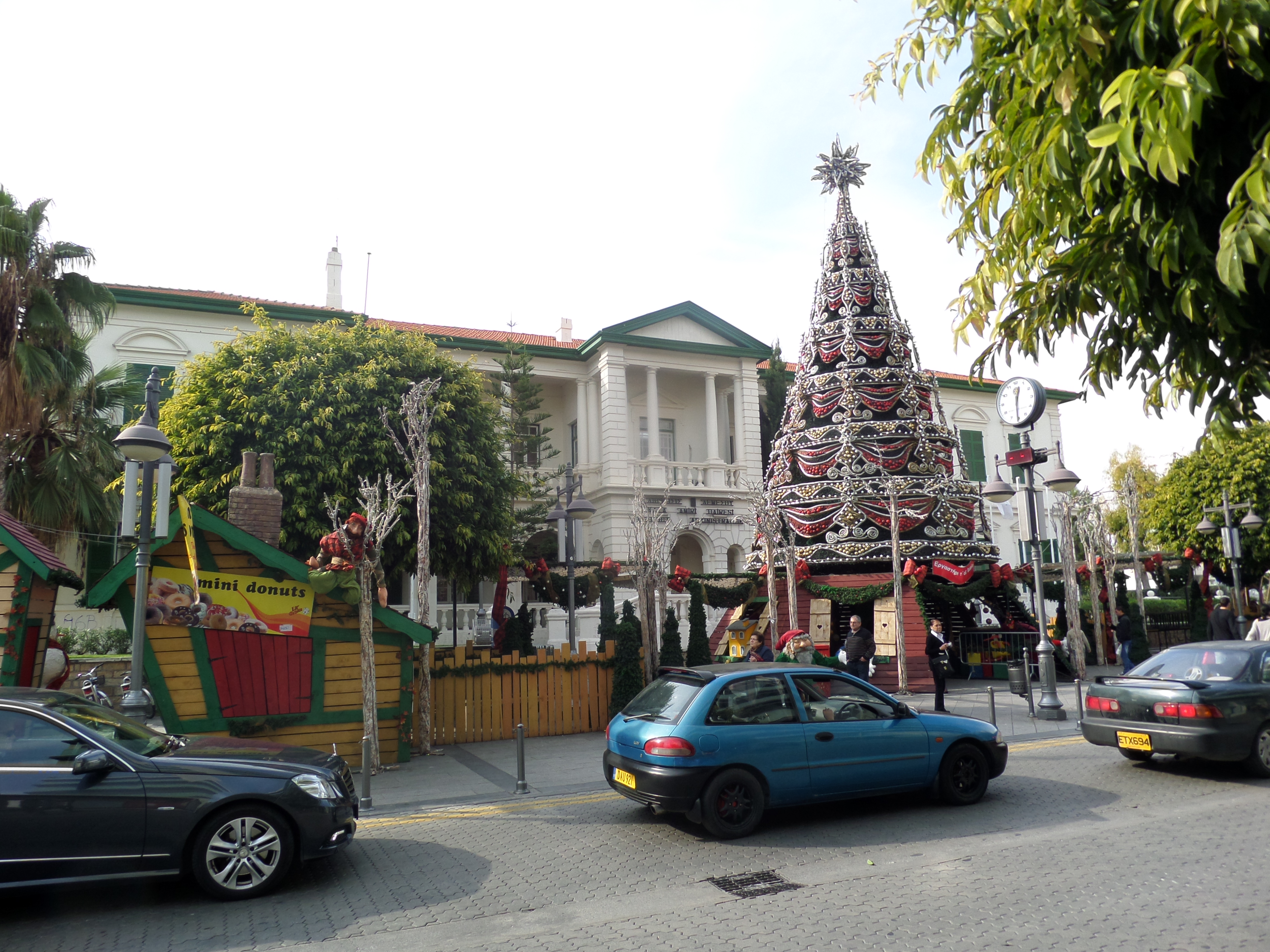 Limassol District Administration at Christmas